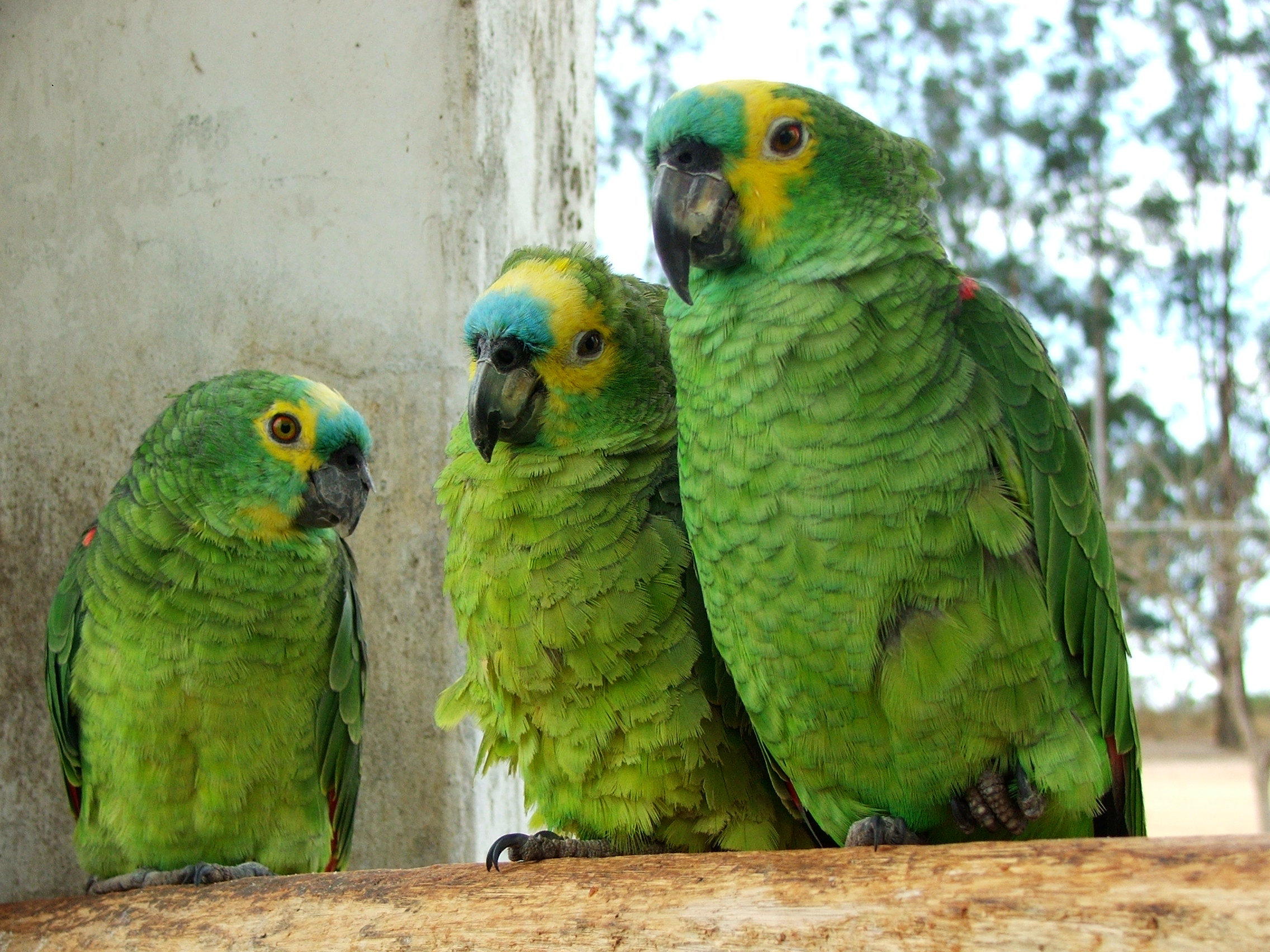 Blue-fronted Amazon, also called the Turquoise-fronted Amazon and Blue-fronted Parrot.